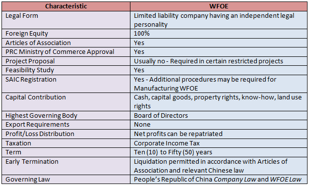 Chart laying out the principle characteristics of a Wholly Foreign-owned Enterprises (WFOE), a type of LLC in China.